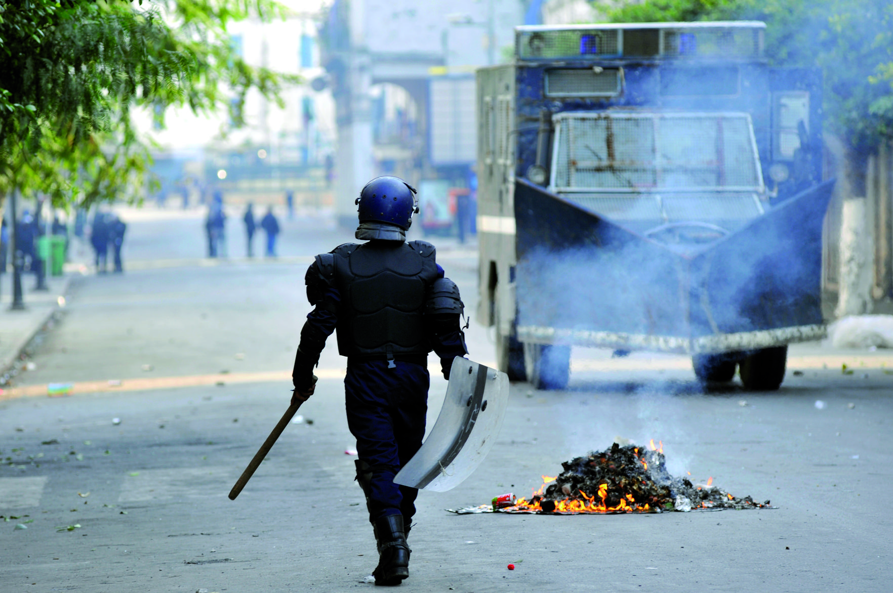 Full story: القصة l'histoire